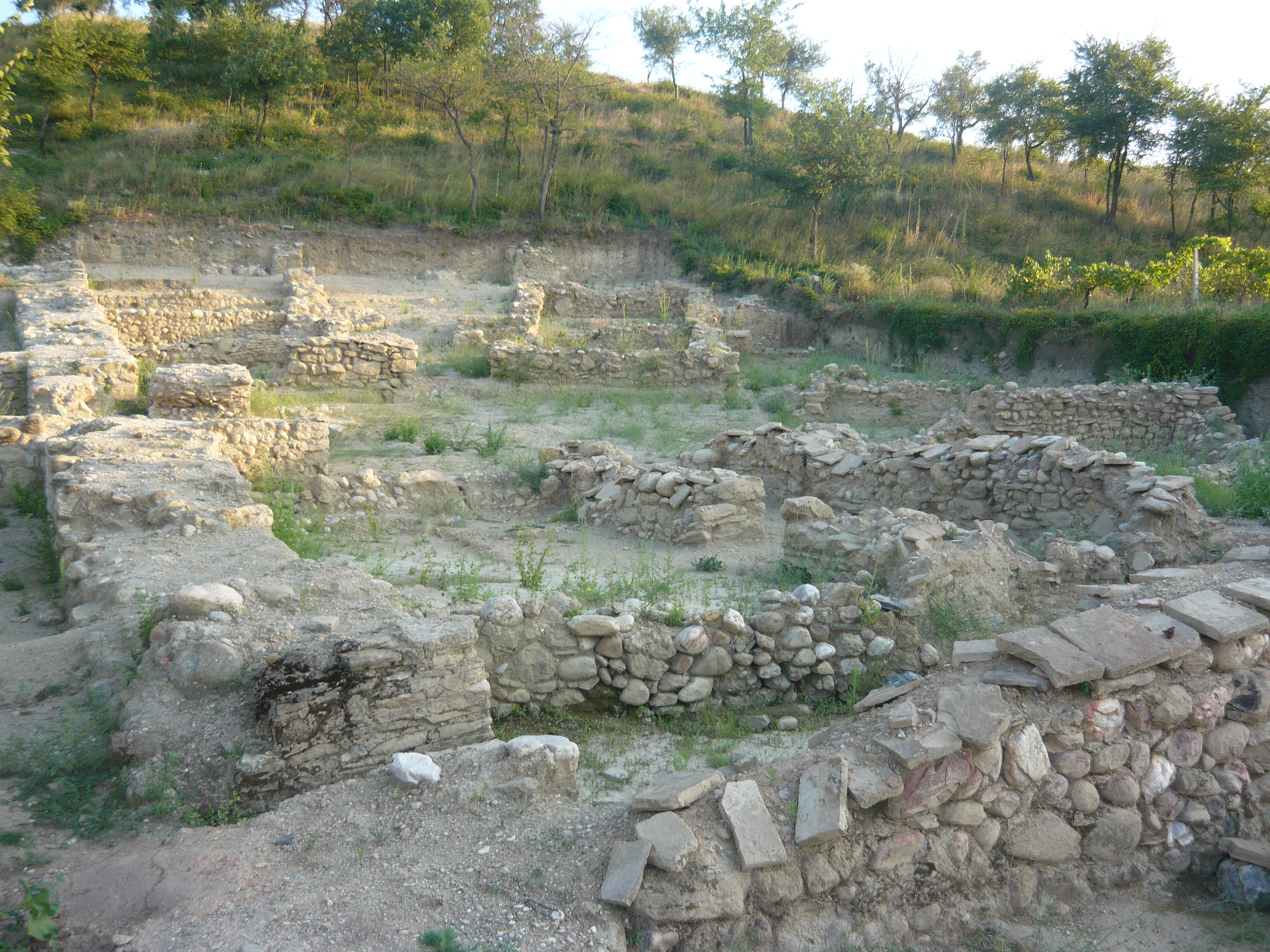 Tauresium, an ancient town and the birthplace of Eastern Roman (Byzantine) Emperor Justinian I, located today in the Republic of Macedonia